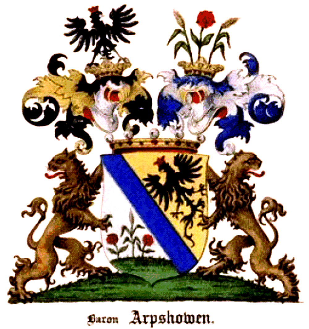 Coat of Arms of Arpshowen family